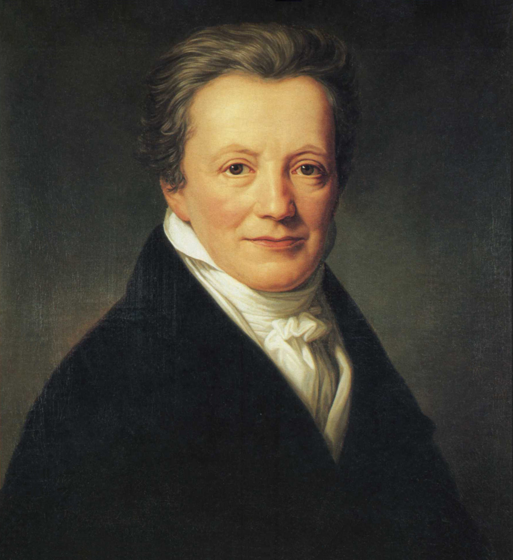 Salomon Heine (19 October 1767 – 23 December 1844) was a merchant and banker in Hamburg. Heine was born in in Hanover, Germany. Penniless, he came to Hamburg in 1784 and in the following years acquired sizeable assets. He became well known as benefactor and patron of his nephew Heinrich Heine.